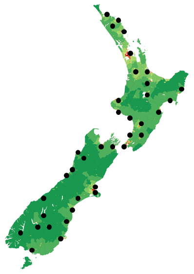 Map showing New Zealand population density, with the location of stations from The Hits network, to illustrate The Hits (New Zealand) and other articles.